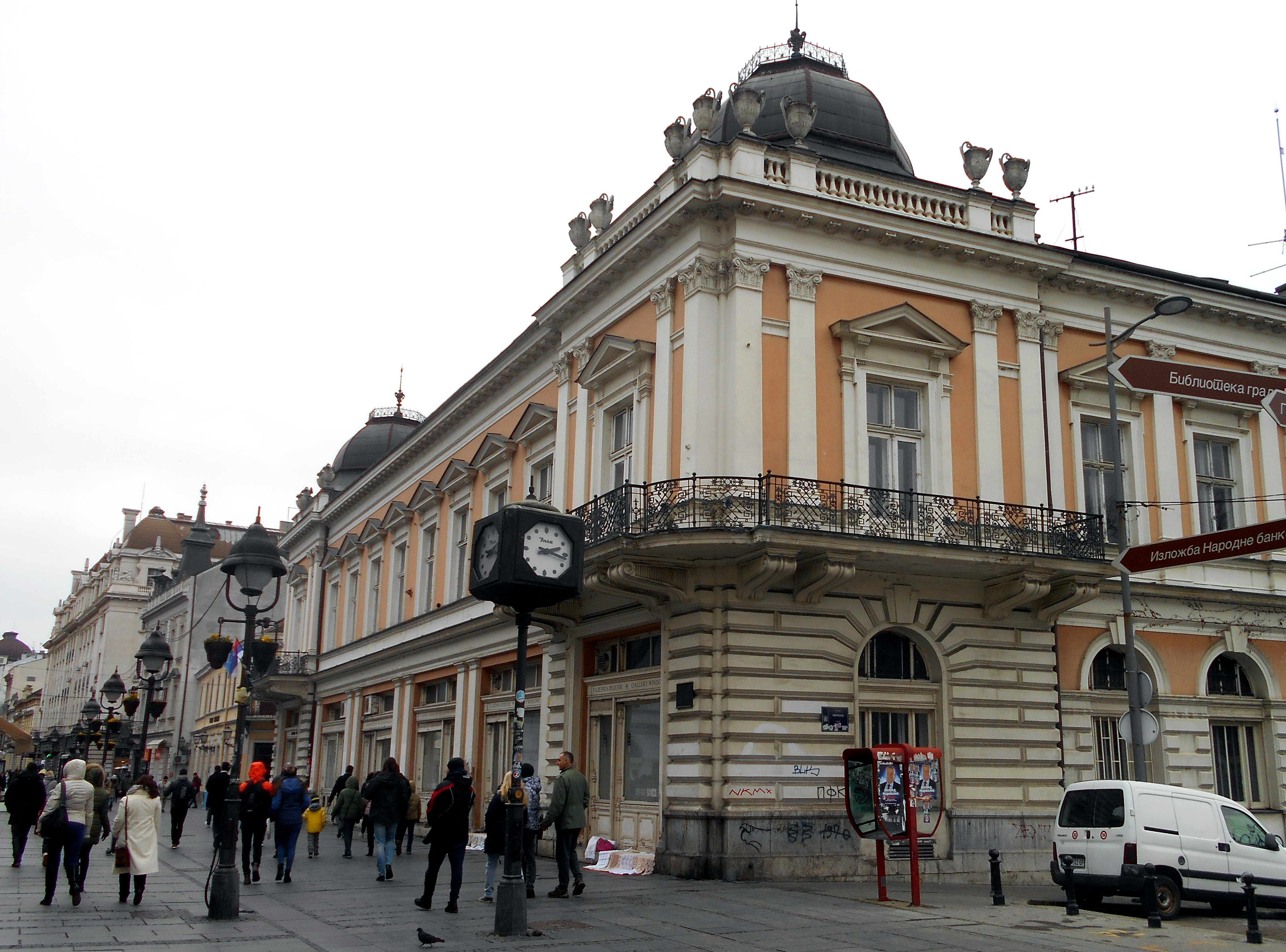 Building of the Faculty of Fine Arts in Belgrade, 10 Rajićeva street (the official address is 16 Pariska street). On the ground floor is the Gallery "Izlozi" (Expositions).